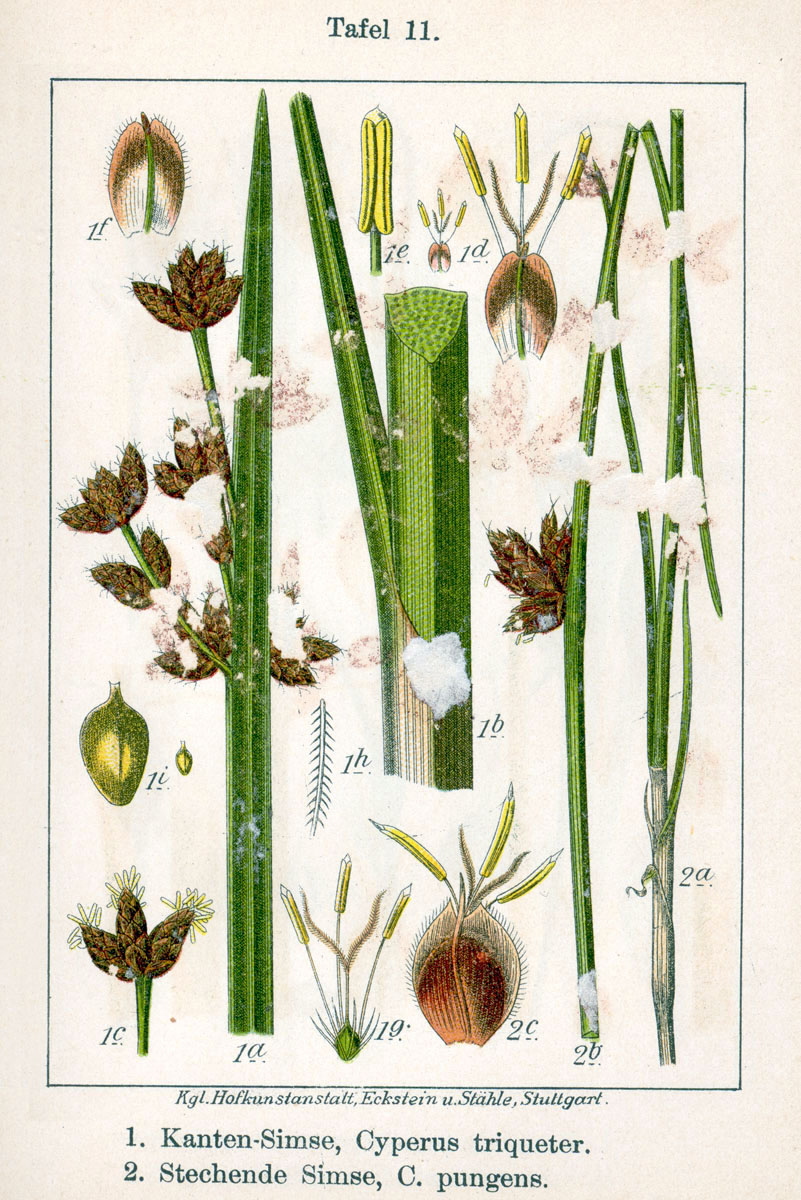 1. Schoenoplectus triqueter (L.) Palla, syn. Cyperus triqueter (L.) Missbach & E.H.L.Krause, nom. ill. 2. Schoenoplectus pungens (Vahl) Palla, syn. Cyperus pungens (Vahl) Missbach & E.H.L.Krause, nom. ill. Original Description 1. Kanten-Simse, Cyperus triqueter 2. Stechende Simse, C. pungens